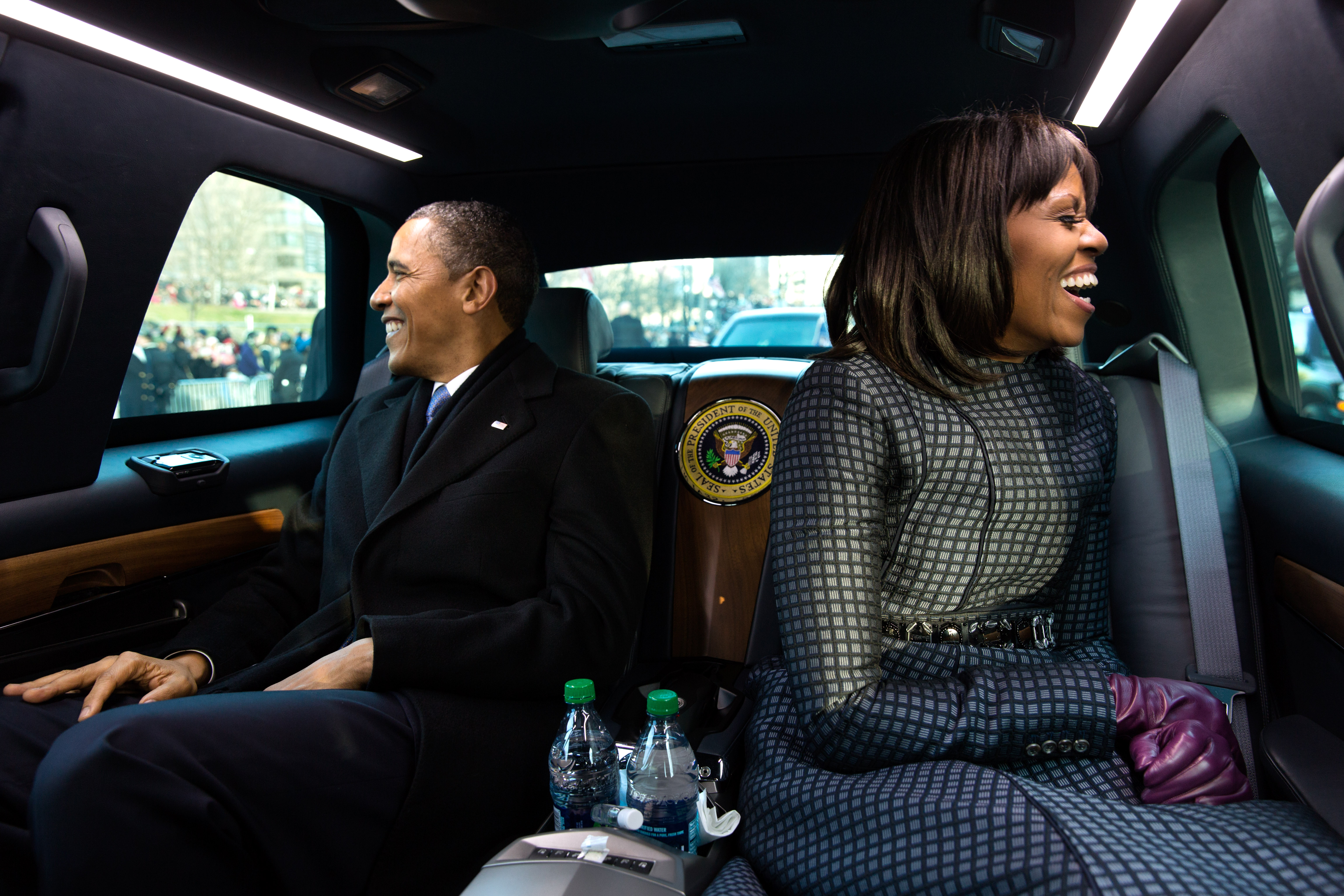 United States President Barack Obama and First Lady Michelle Obama ride in the 2013 presidential inaugural parade in Washington, D.C. on January 21, 2013.